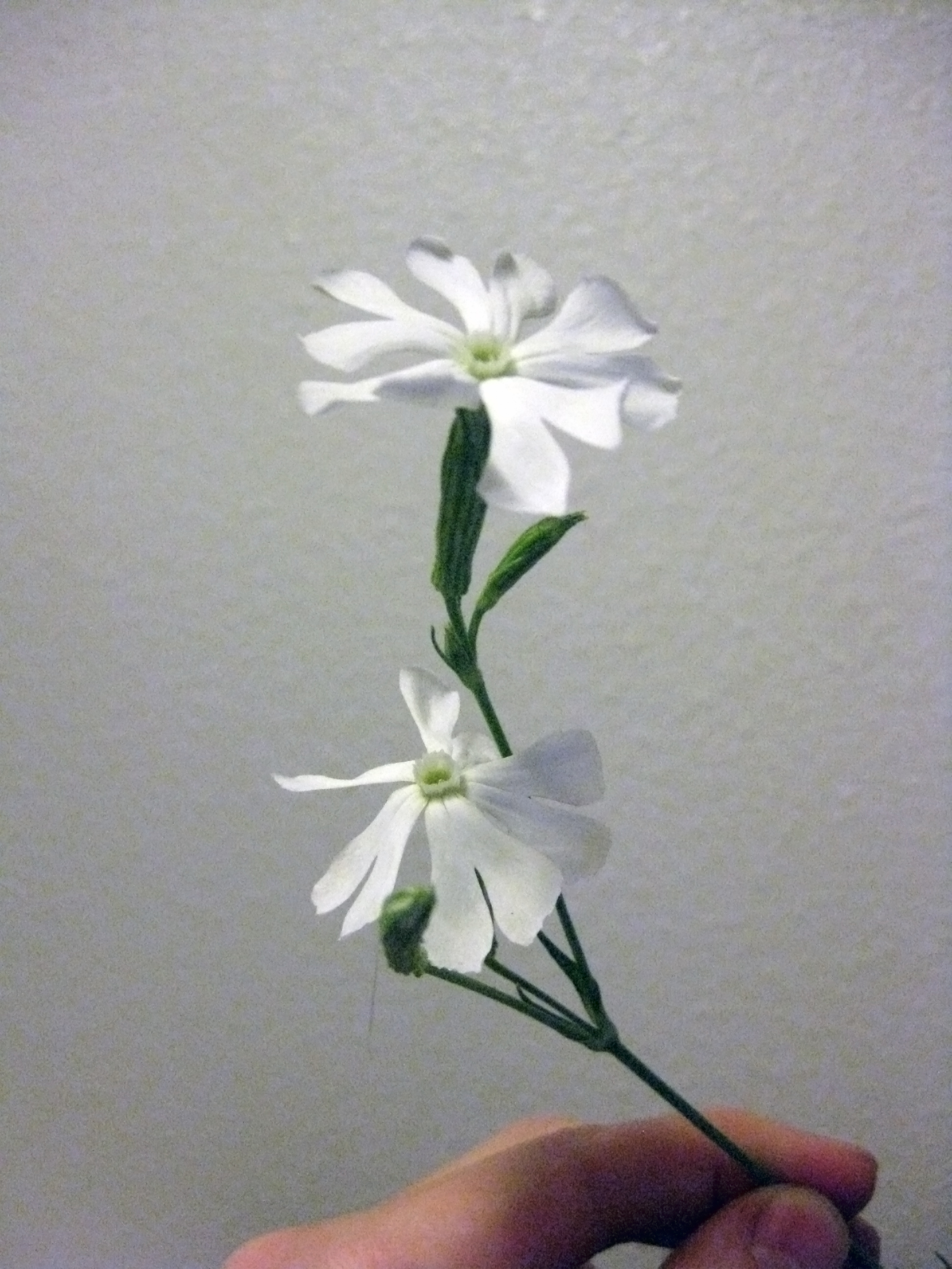 Silene capensis blossoms. The flowers open at night and close during the day. The flowers are very fragrant, smelling something like jasmine, cloves and bananas. This species is native to South Africa.